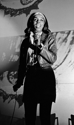 Madeline Bell performing for Dutch television show Fenklup in 1967.